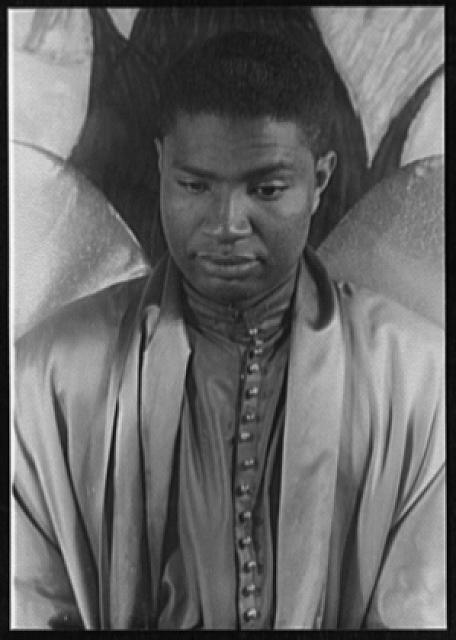 Title: Portrait of Ossie Davis, as Gabriel in The Green Pastures Abstract: 1 photographic print : gelatin silver.